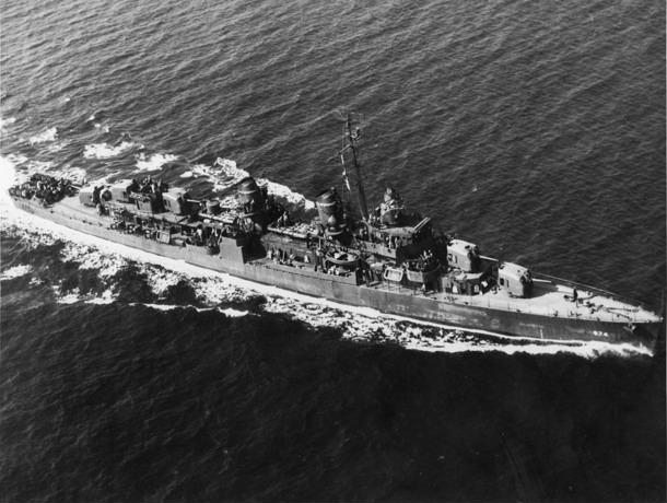 The U.S. Navy destroyer USS Hunt (DD-674) at sea, circa 1943.